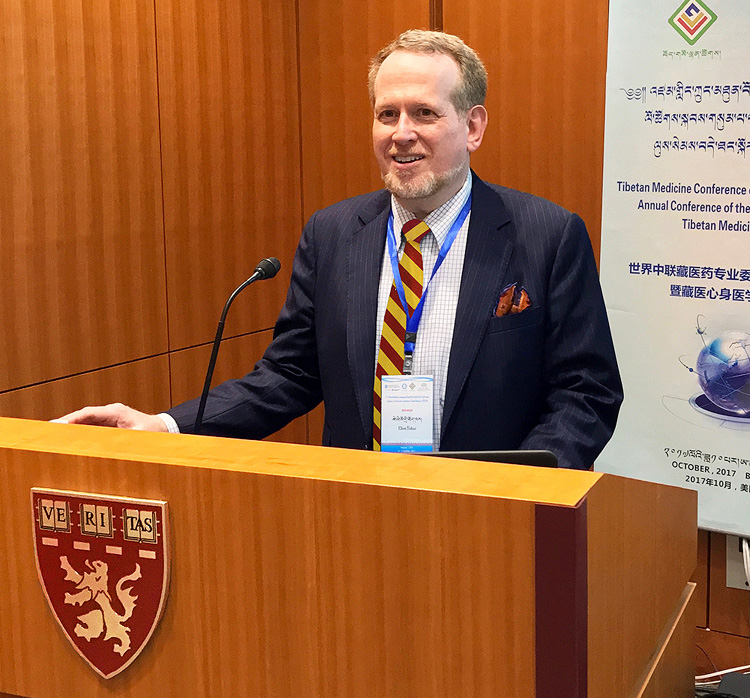 Eliot Tokar presenting his paper, "Exploring Interdependence: Tibetan medicine, medical pluralism and the mind-body paradigm", at the 2017 Tibetan Medicine Conference on Mind-Body Health at Harvard Medical School, Boston, MA, USA.